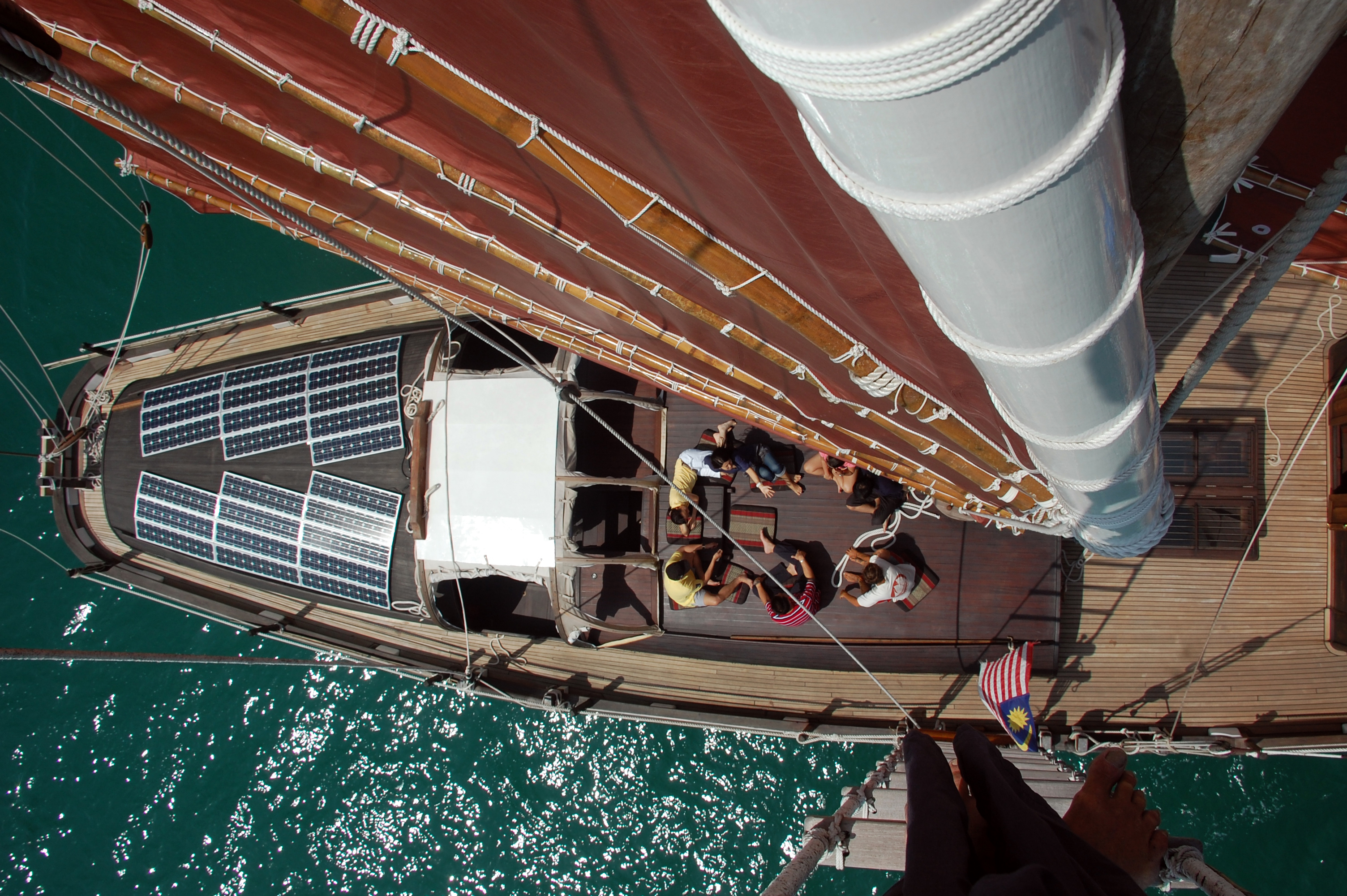 The Naga Pelangi - view from the Mast top down